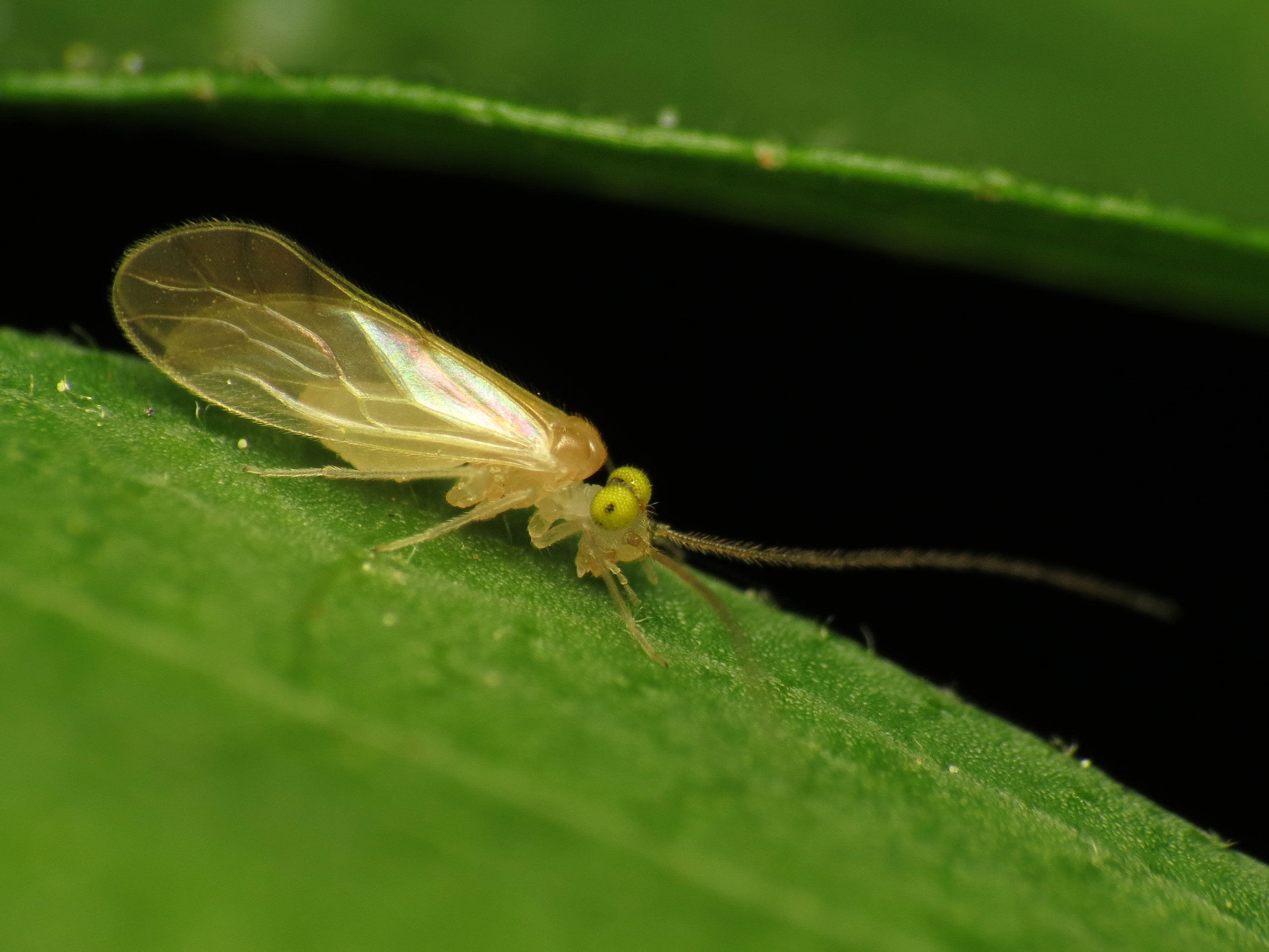 Xanthocaecilius sommermanae. Rock Creek Park, Washington, DC, USA.